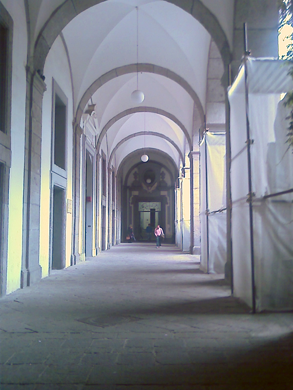 Perspective of Chiostro del Savatore's arcade